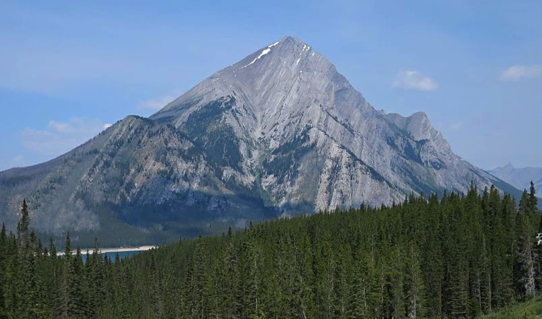 Mount Nestor seen from Buller Creek